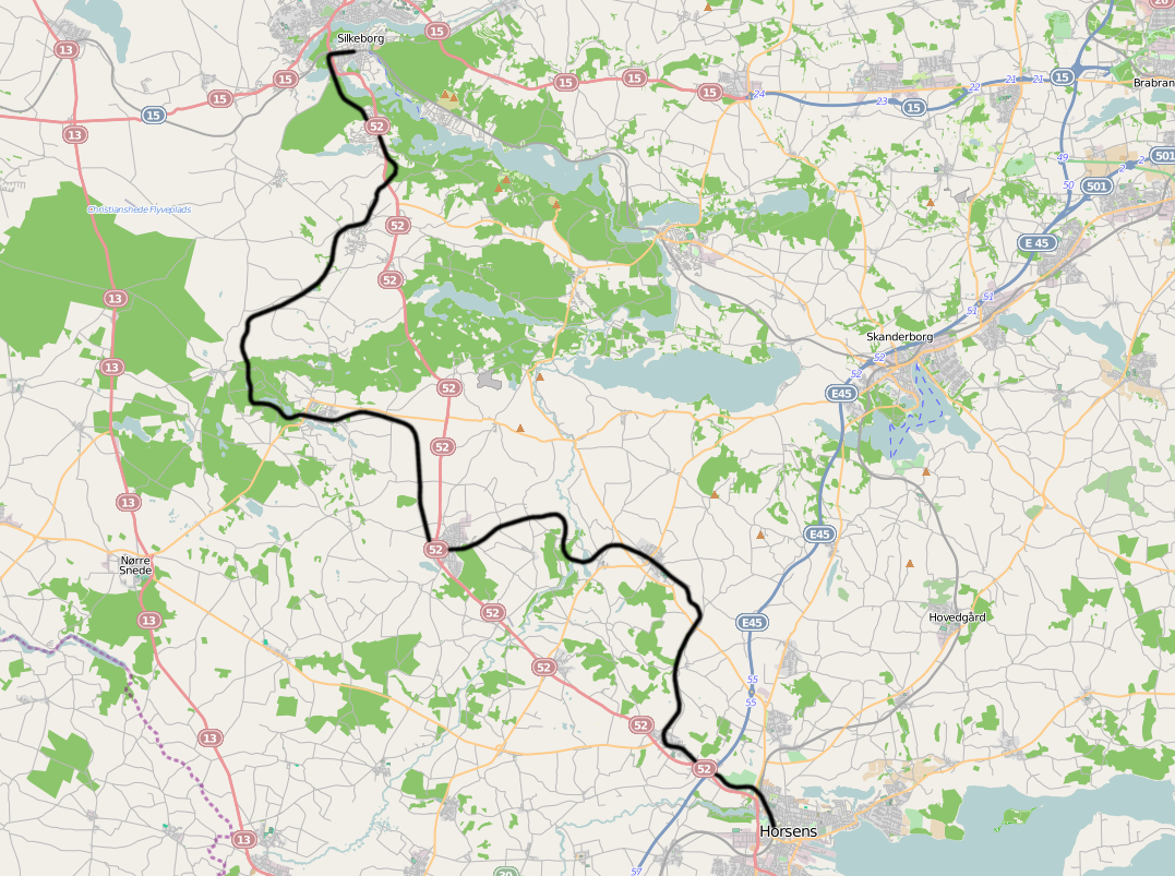 Railway line Horsens - Silkeborg